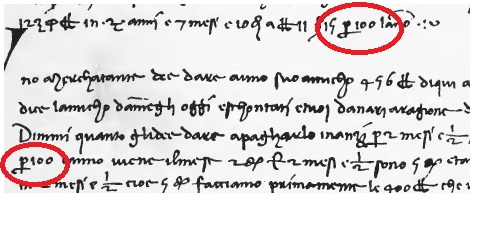 Portion of a facsimile of a 1339 Italian arithmetic text (reproduced in Rara Arithmetica - 1898) with the usage of an early form of the percentage sign circled in red.